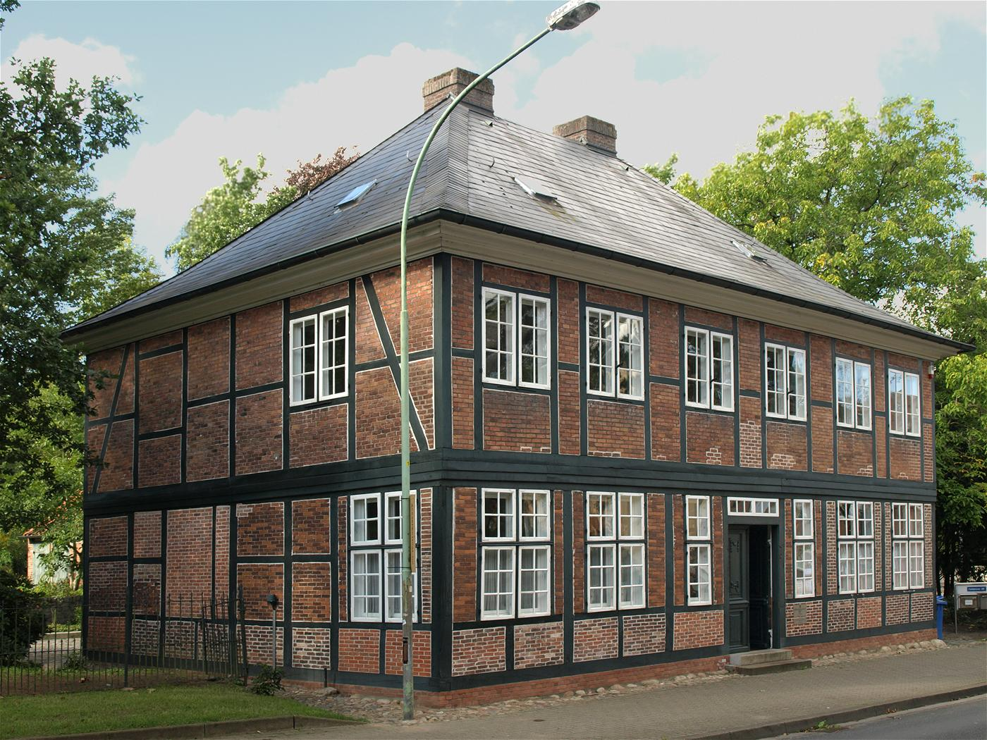 Pinneberg, Schleswig-Holstein (Germany), Frame house Fahltskamp 30 , photo 2009